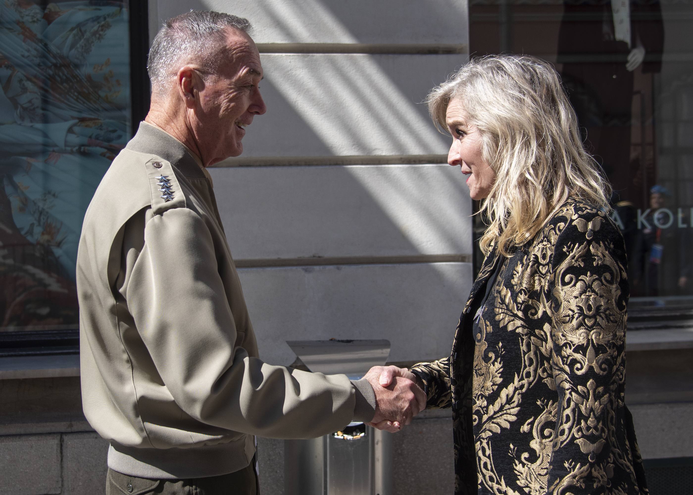 Marine Corps Gen. Joe Dunford, chairman of the Joint Chiefs of Staff, meets with the Honorable Lynda C. Blanchard, U.S. Ambassador to Slovenia, ahead of the North Atlantic Treaty Organization Military Committee Conference in Ljubljana, Slovenia, Sept. 13, 2019. (DOD photo by U.S. Navy Petty Officer 1st Class Dominique A. Pineiro)